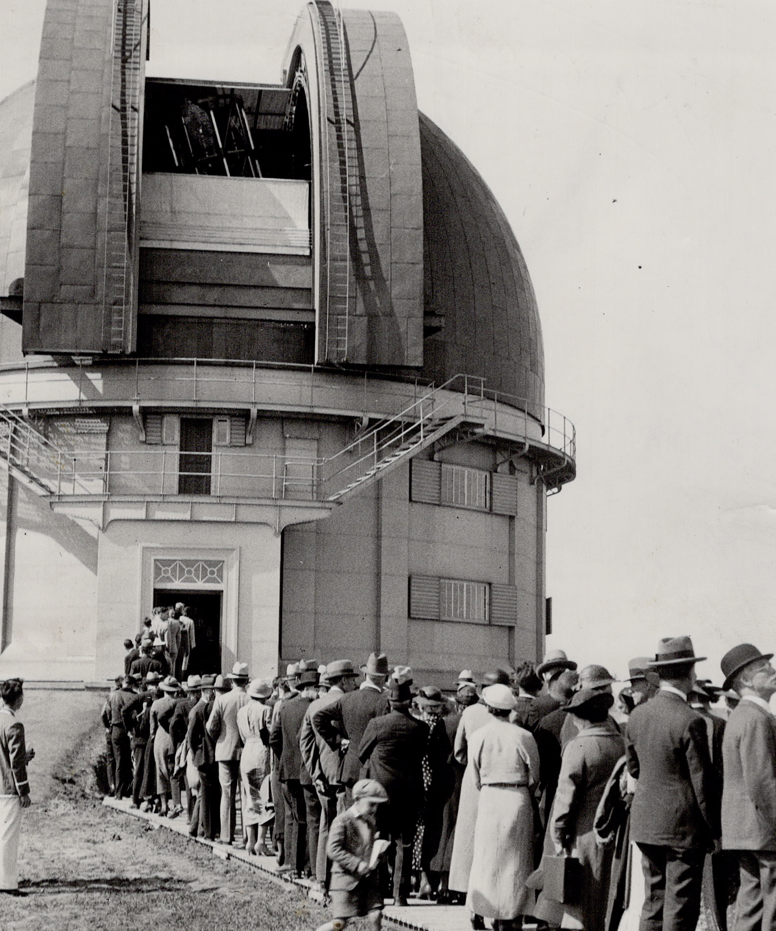 Guests at telescope open house.